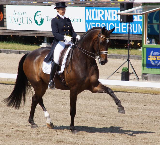 Tinne Vilhelmson Silfvén and Don Auriello at the CDI5* WDM Falsterbo 2013